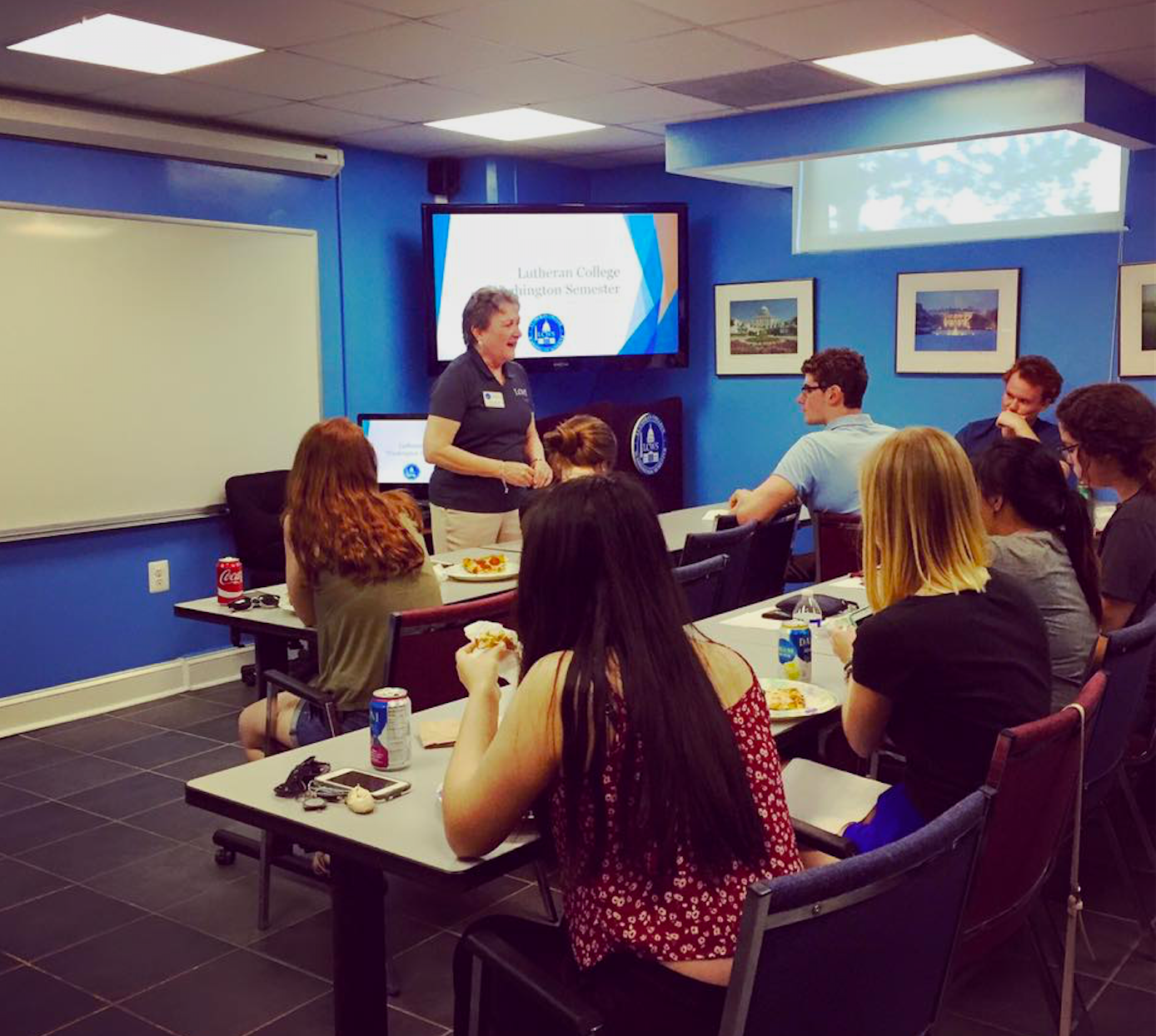 Classroom at Lutheran College Washington Semester (LCWS) in Arlington, VA.